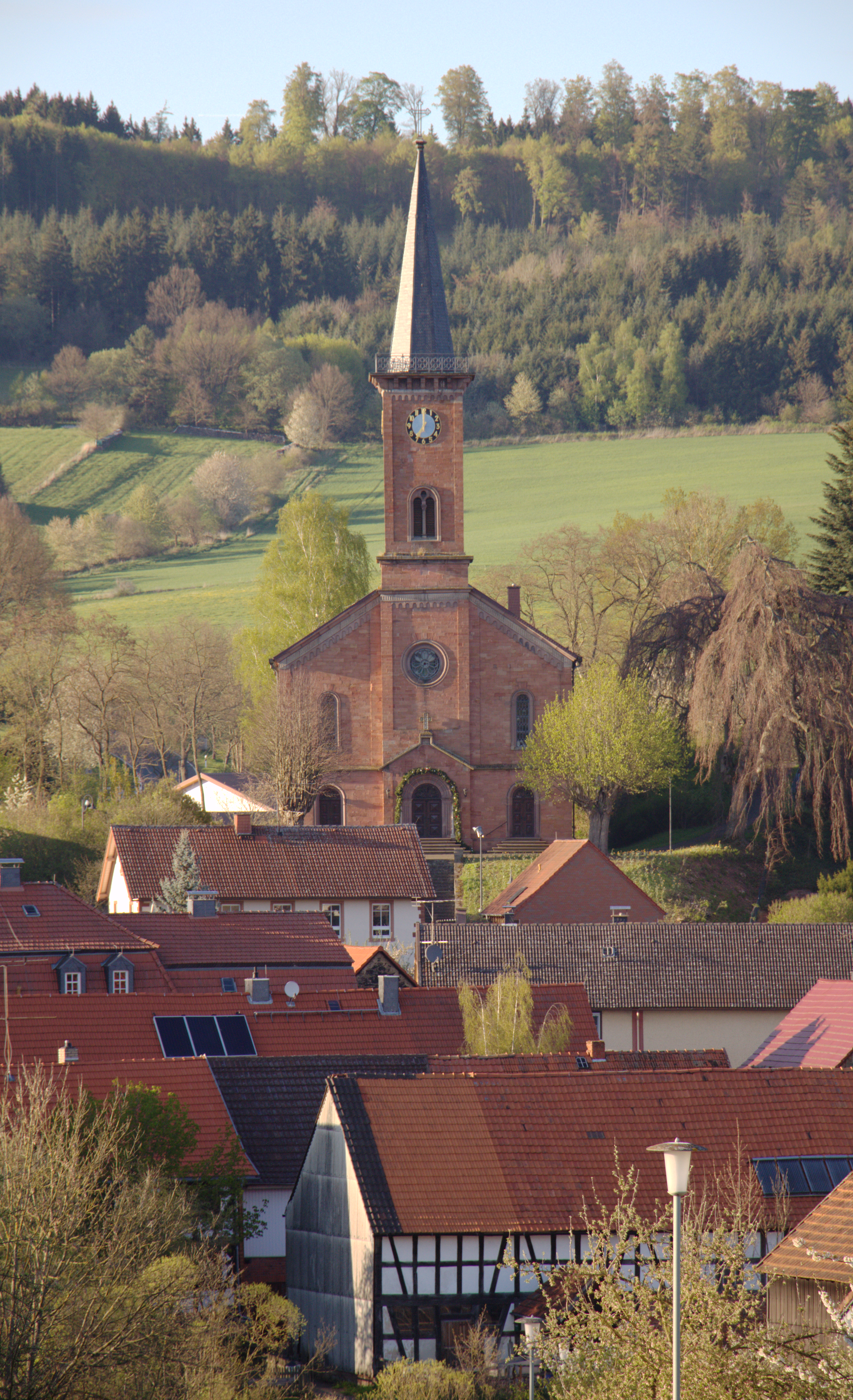 Protestant church in Stockhausen, Herbstein, Hessen, Germany